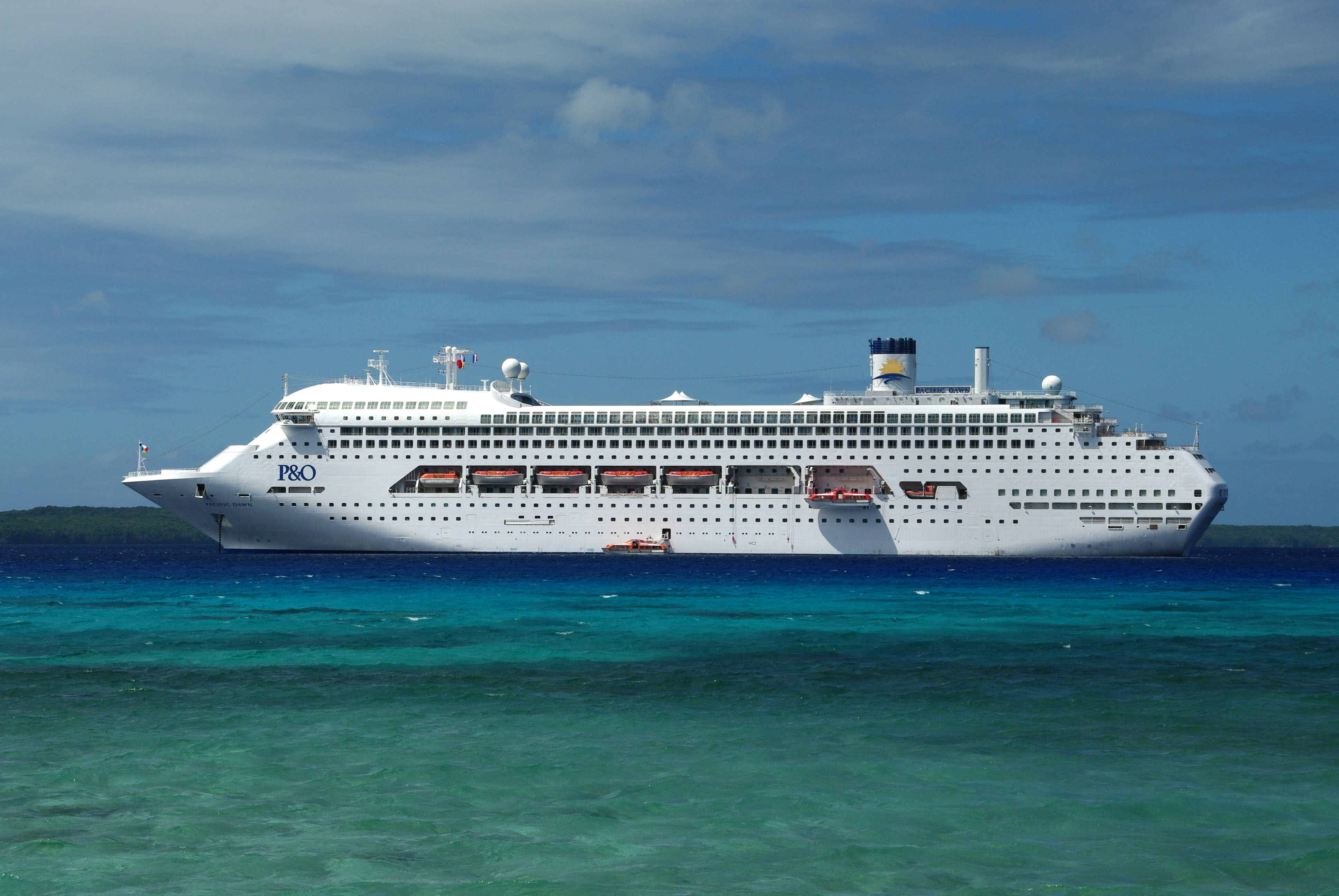 The P&O cruise ship "Pacific Dawn" in the Baie du Santal, Easo, Lifou, New Caledonia